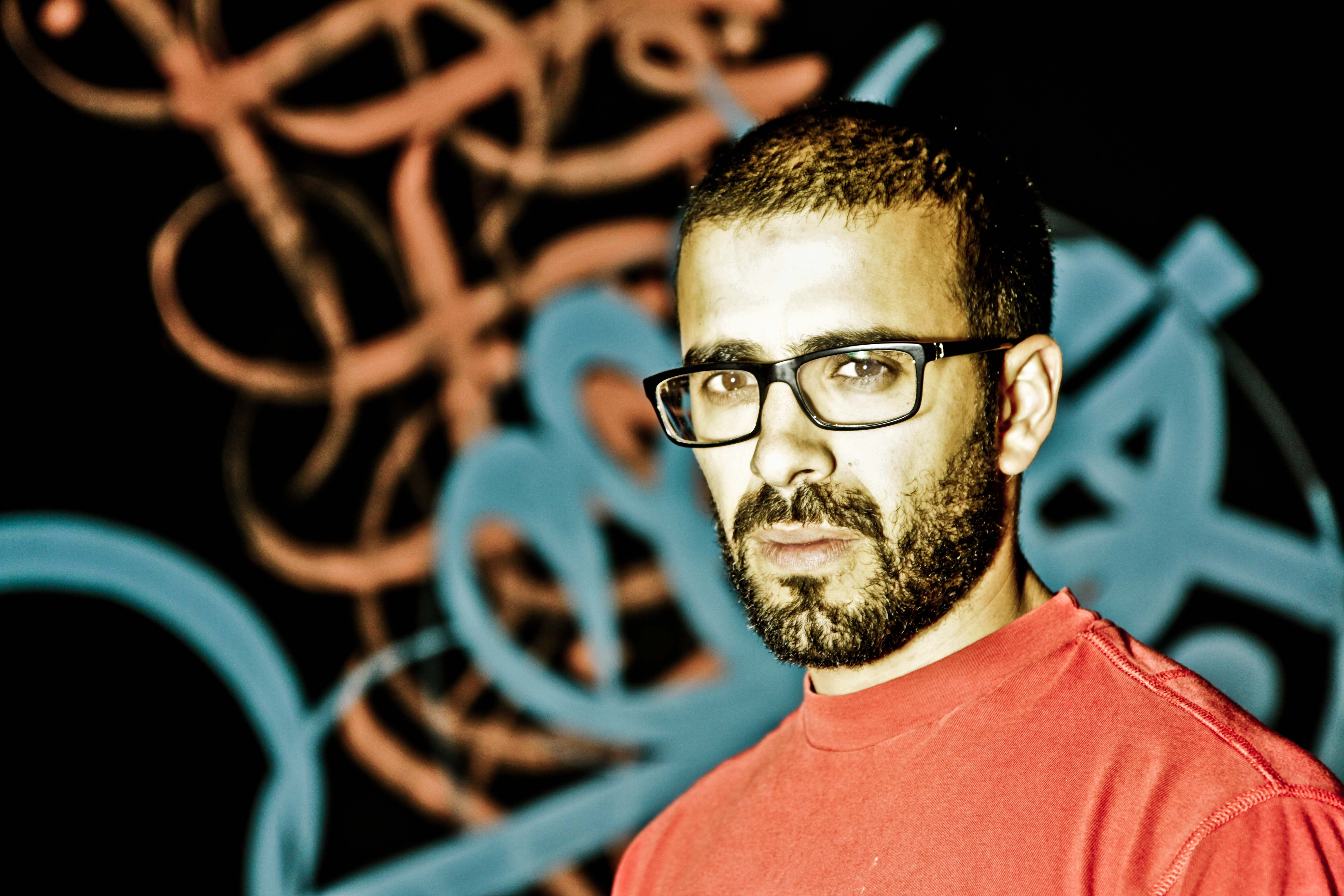 eL Seed at Doha, Qatar, during the Salwa Road Project